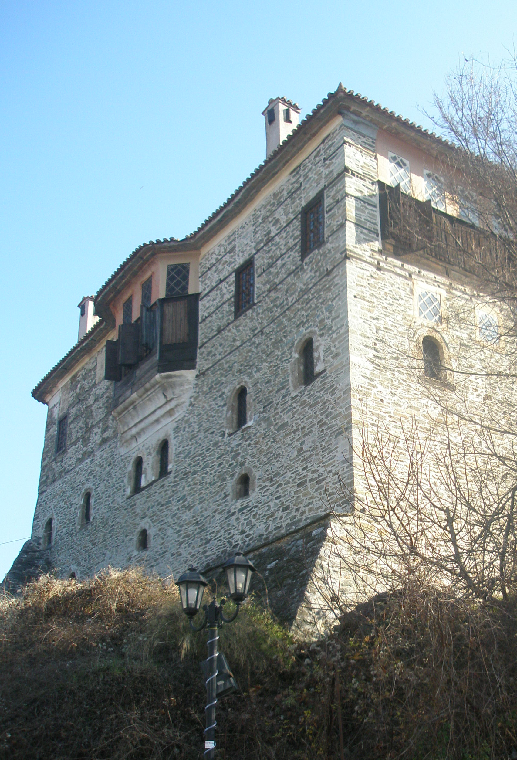 Old house-museum, Tabelakia, Greece